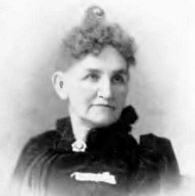 Mrs Edward H. East - one of the Women of the Century